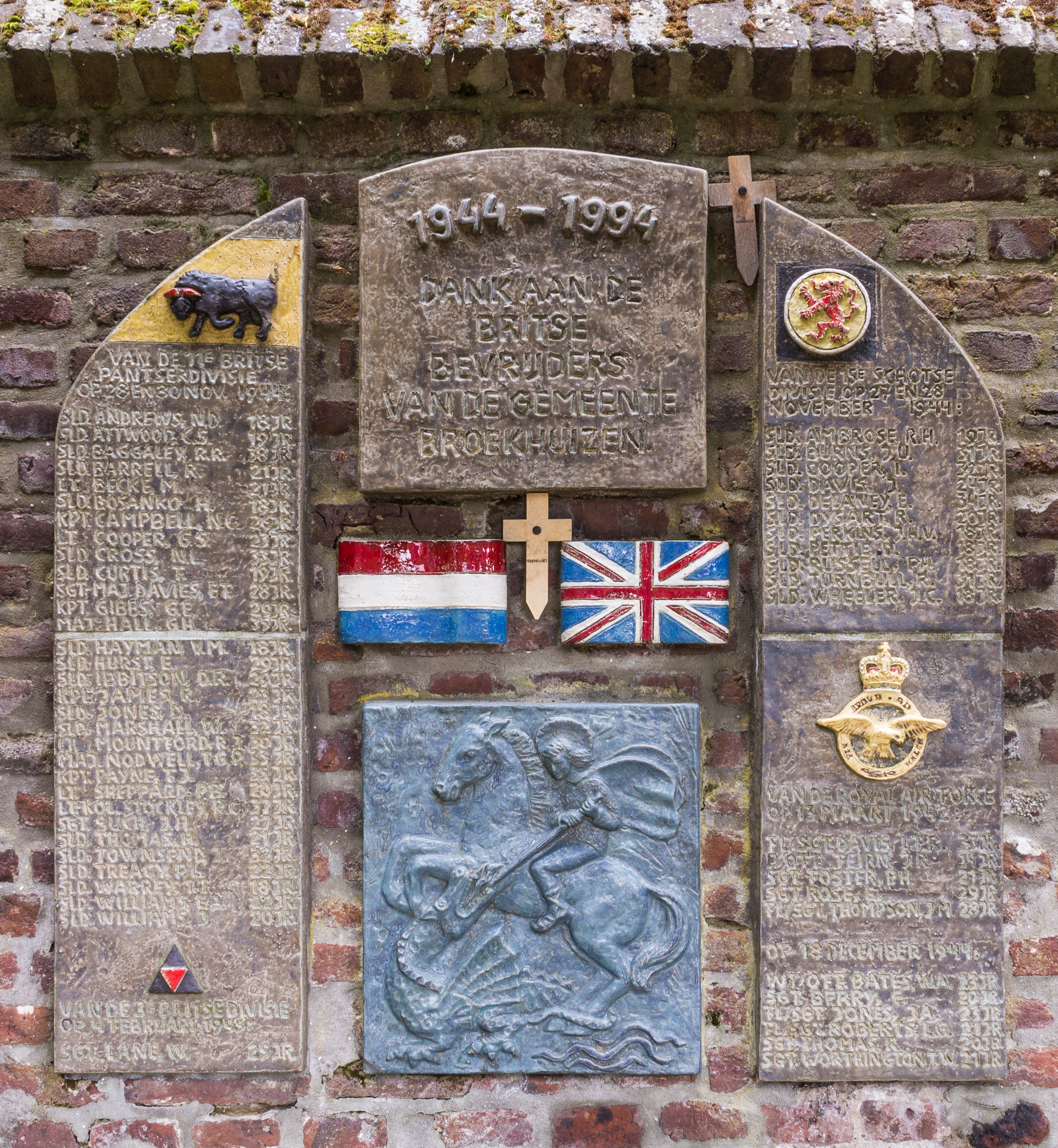 War Memorial in wall of St. Nicholas Church in Broekhuizen (Horst aan de Maas) in province of Limburg in the Netherlands.